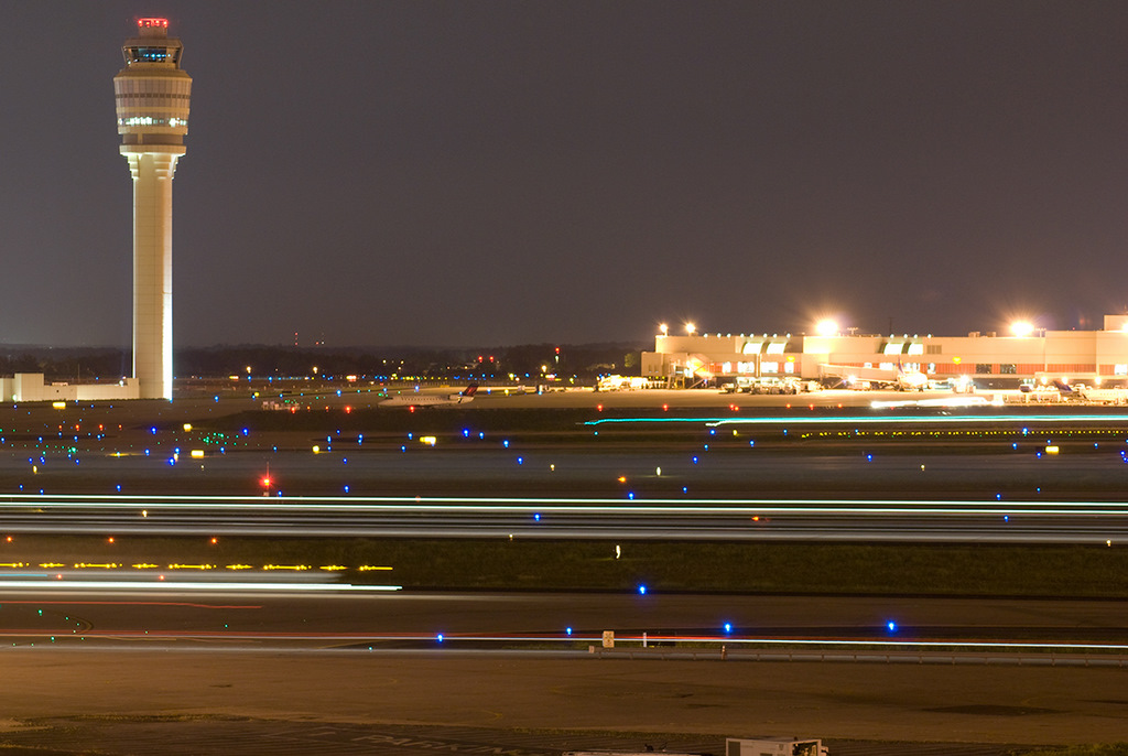 KATL at night